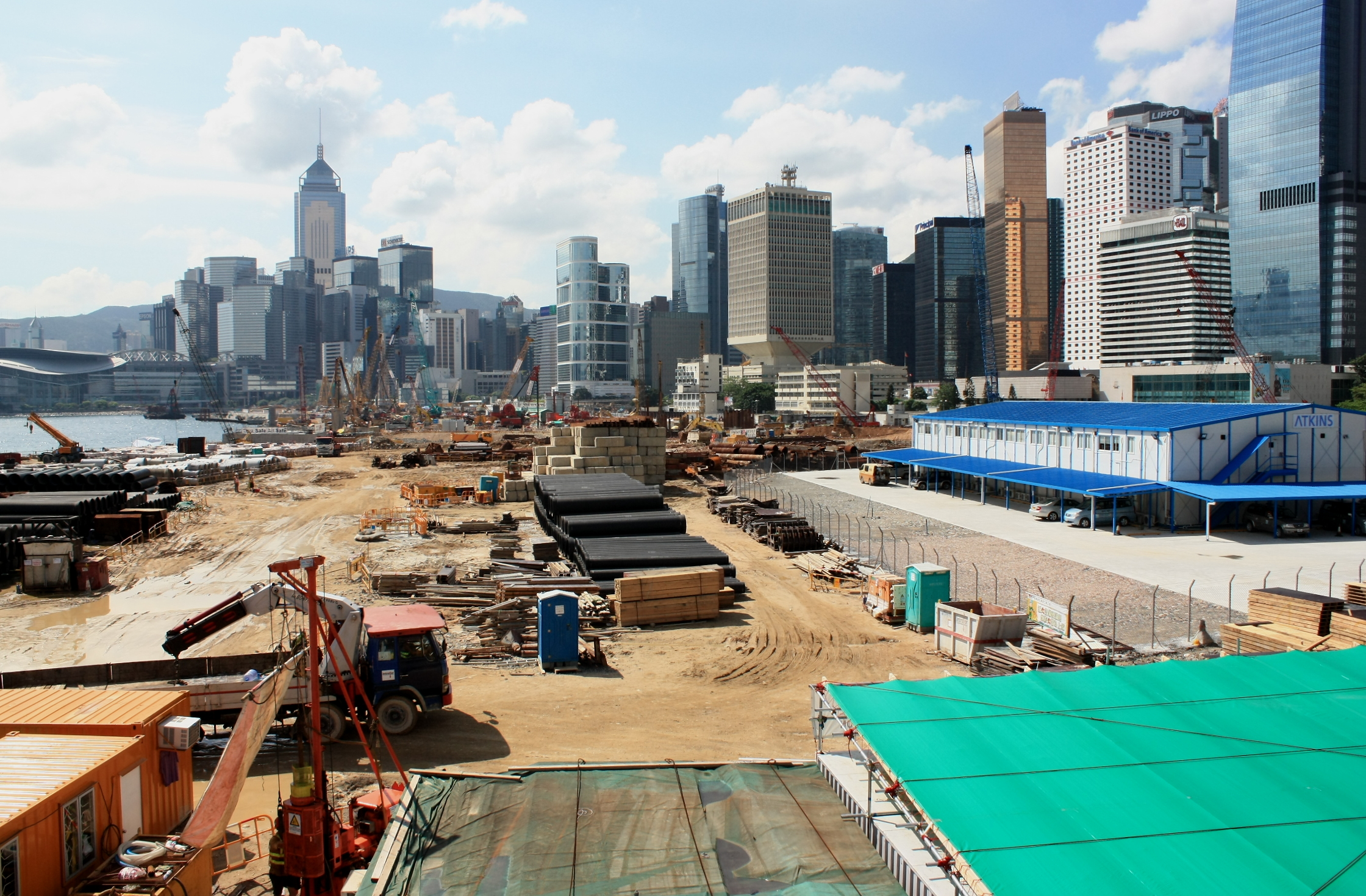 Central and Wan Chai Reclamation 中環及灣仔填海計劃